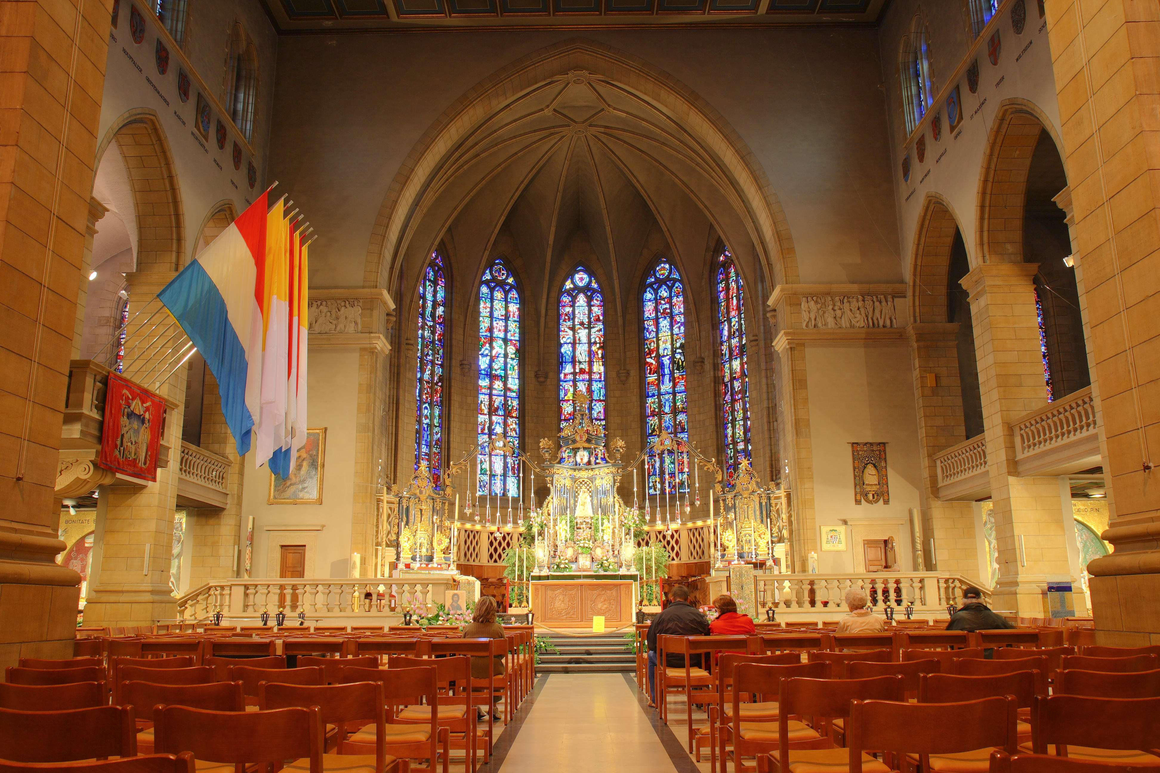 Choir of the Notre-Dame Cathedral in Luxembourg. This picture is a tone mapped version made from three different exposures pictures taken from the same location.